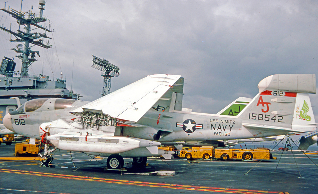 A U.S. Navy Grumman EA-6B Prowler (BuNo 158542) of Tactical Electronic Warfare Squadron VAQ-130 "Zappers" aboard the aircraft carrier USS Nimitz (CVN-68), in 1975. VAQ-130 was assigned to Carrier Air Wing 8 (CVW-8) aboard the Nimitz for a deployment to the North Atlantic from 16 July to 24 September 1975.